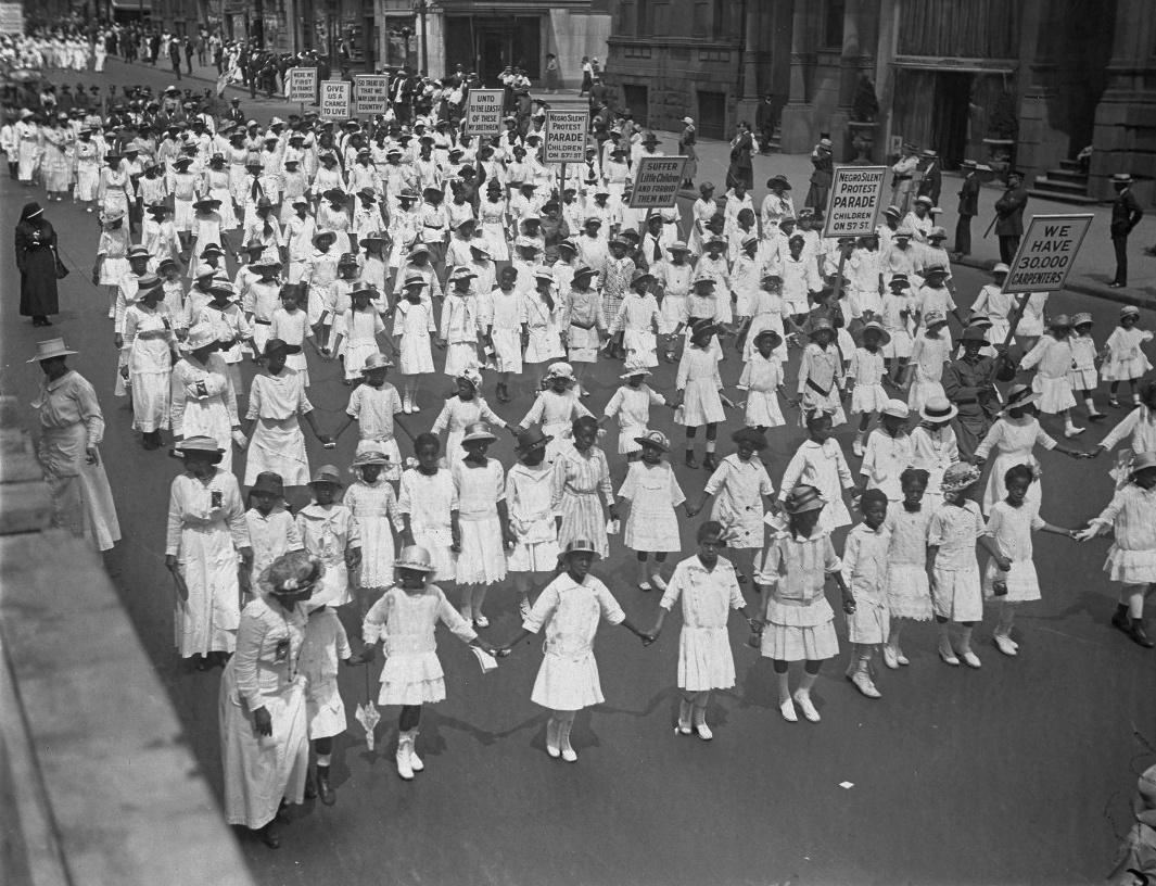 The "Silent Parade" in New York 1917; organized by the NAACP to protest the East St. Louis Riot violence against African-Americans